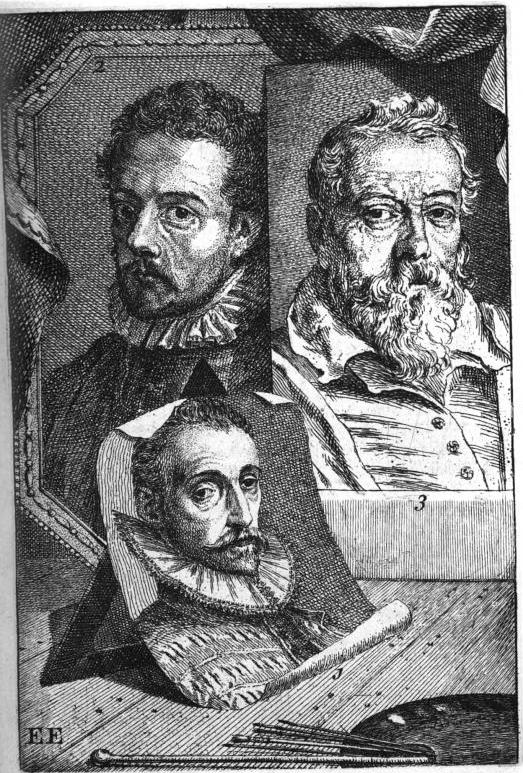 EE p341 Joris Hoefnagel - Jeroon Franken - Frans Franken